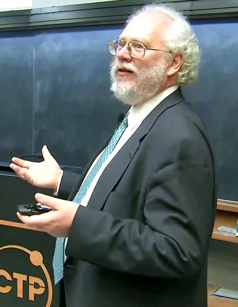 Peter Shor speaking after receiving the 2017 Dirac Medal from the ICTP.